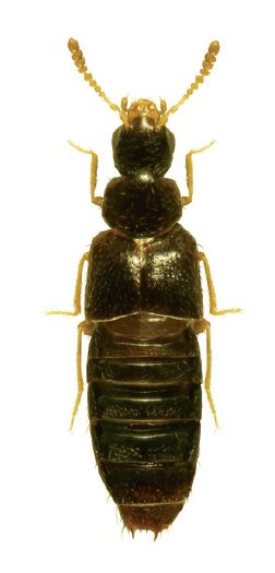 Dorsal view of Gyrophaena (Phaenogyra) polita (apical part of abdomen removed).